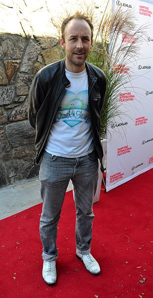 Director Derek Cianfrance attends the screening of "Blue Valentine" during 18th Annual Hamptons Film Festival on October 10, 2010 at the United Artists Theater in East Hampton, New York.